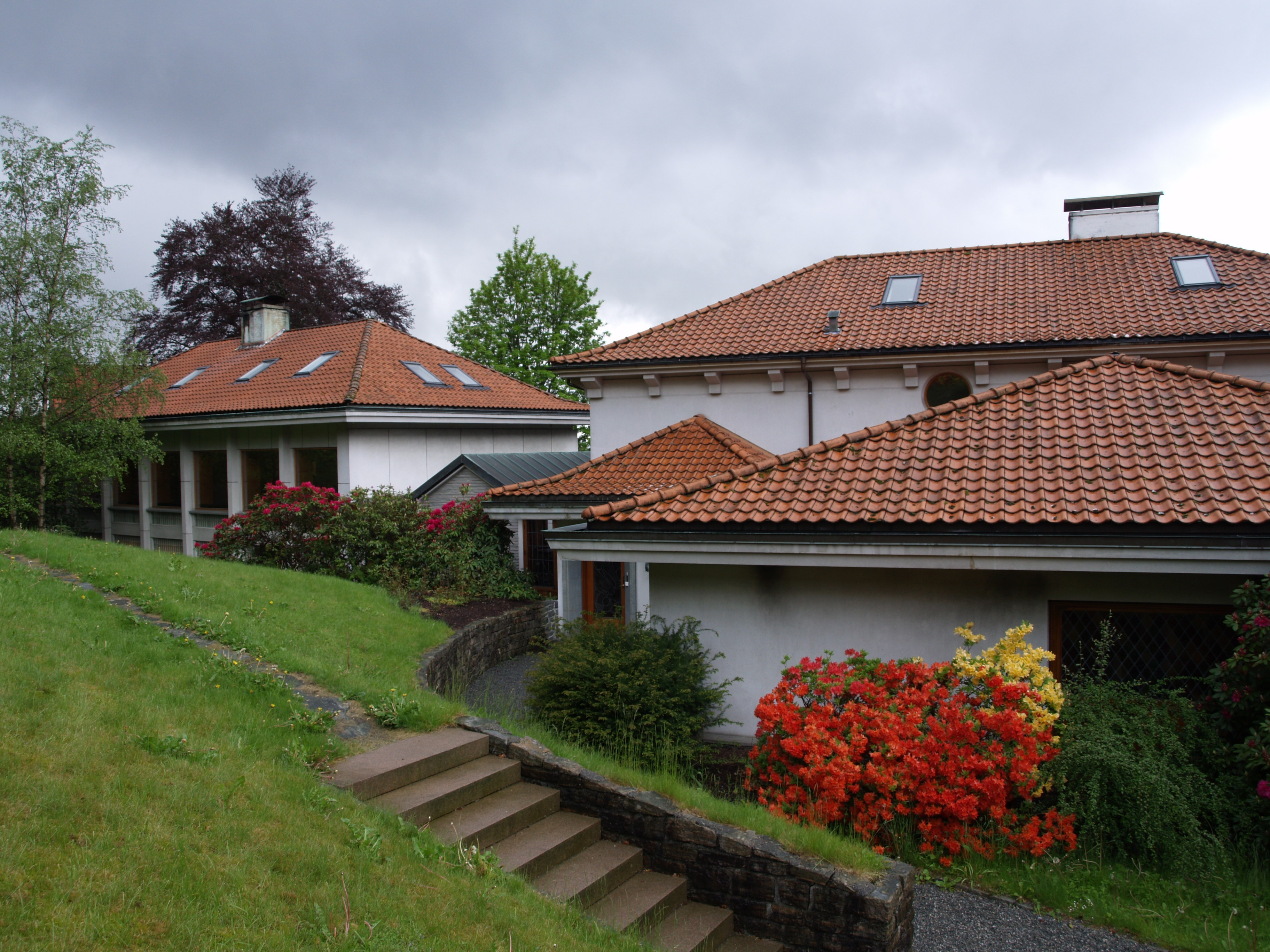 The office of Firma Hilmar Reksten